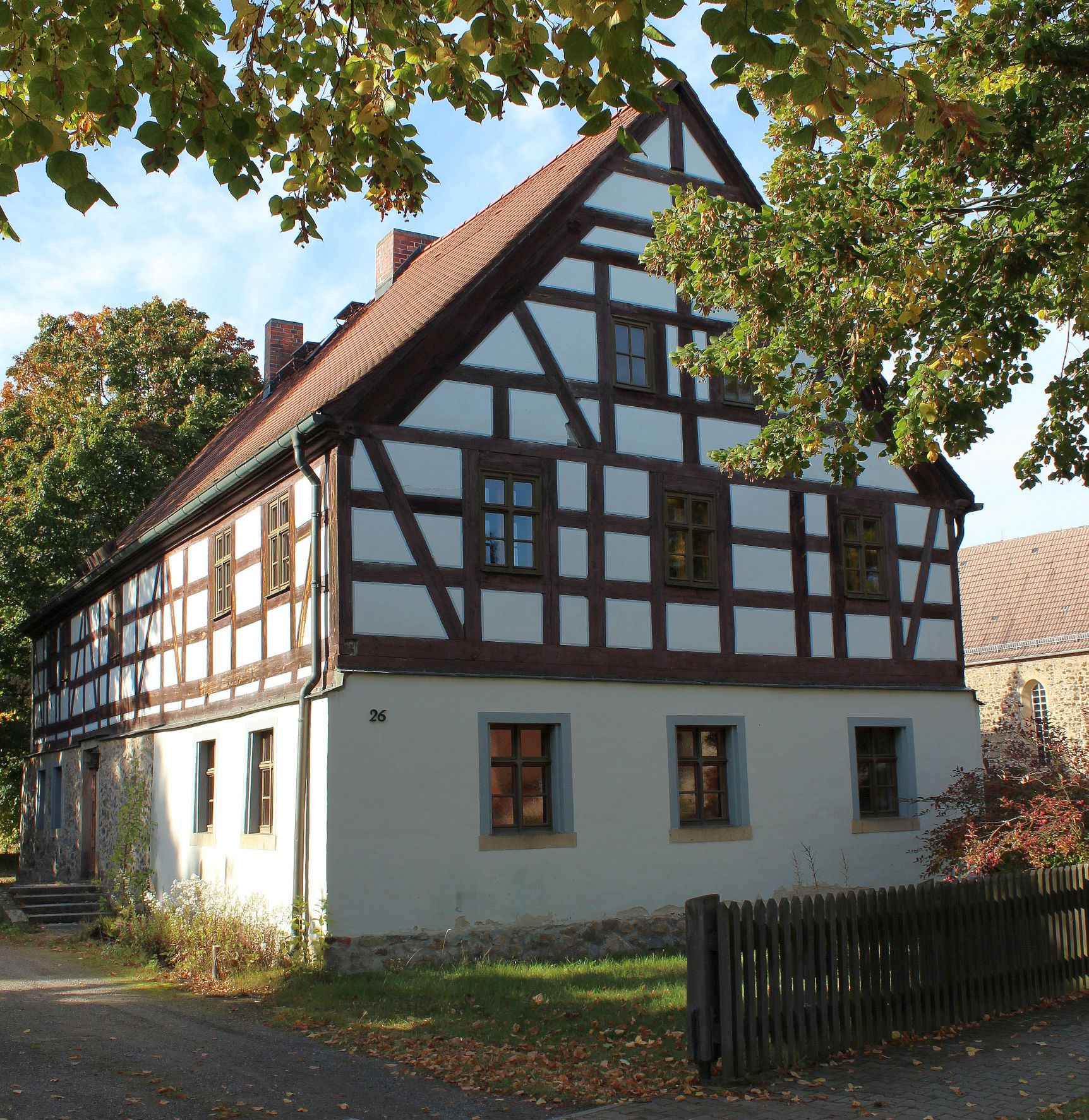 Schmerkendorf church (Falkenberg/Elster, Elbe-Elster district, Brandenburg)